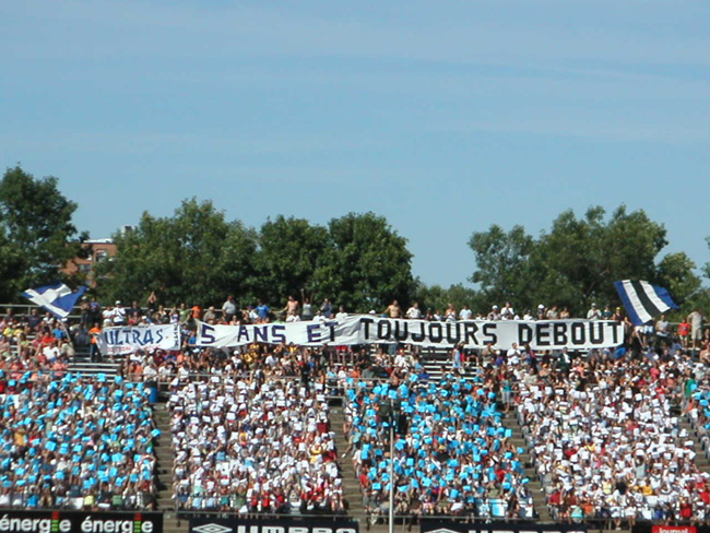 Tifo by the UM02 of Montreal, Date: August 5th.